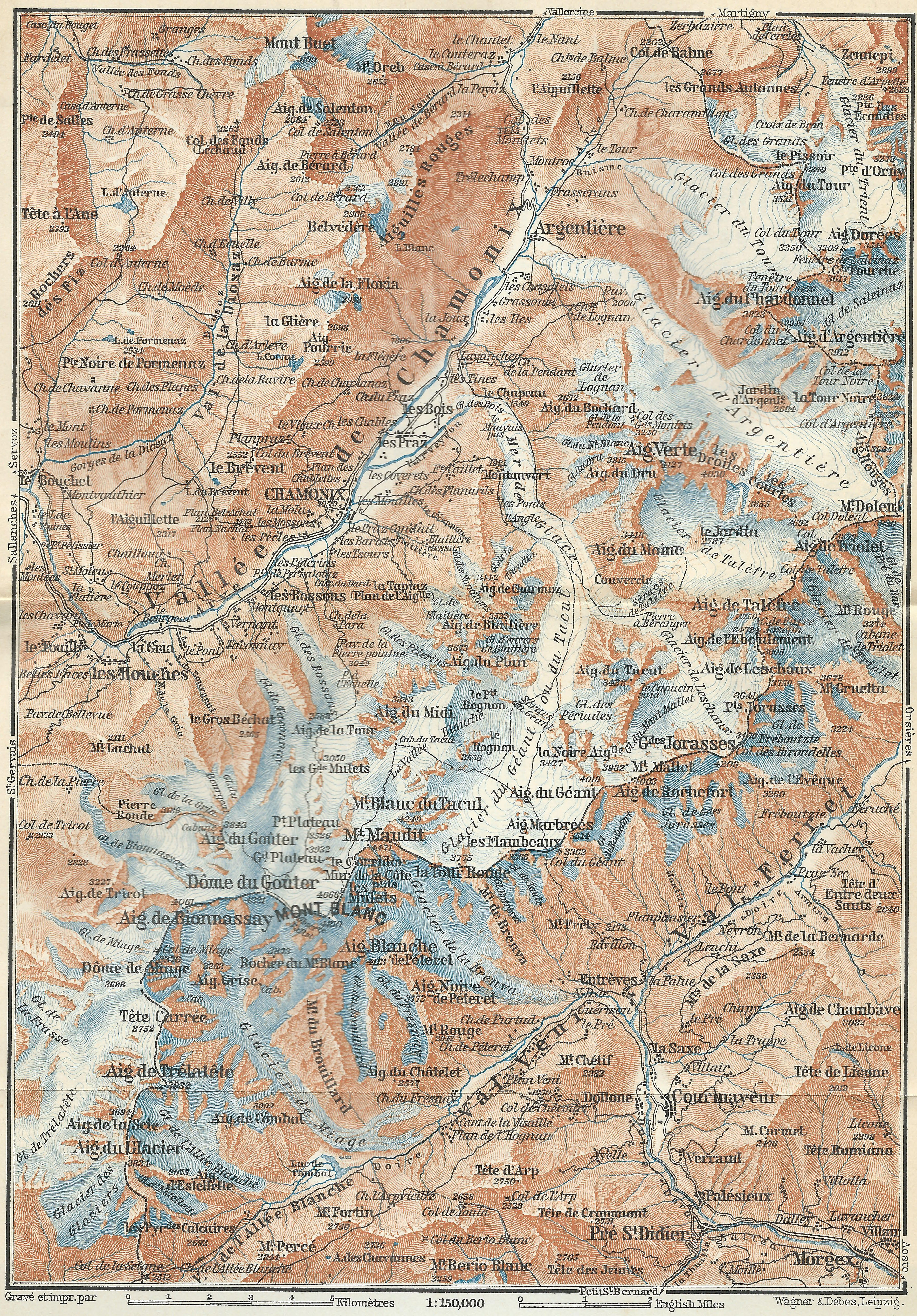 Baedeker map of Chamonix and surrounding mountains and glaciers. At that time Chamonix was a very small village along the road to Switzerland. The glaciers have retreated since this time.